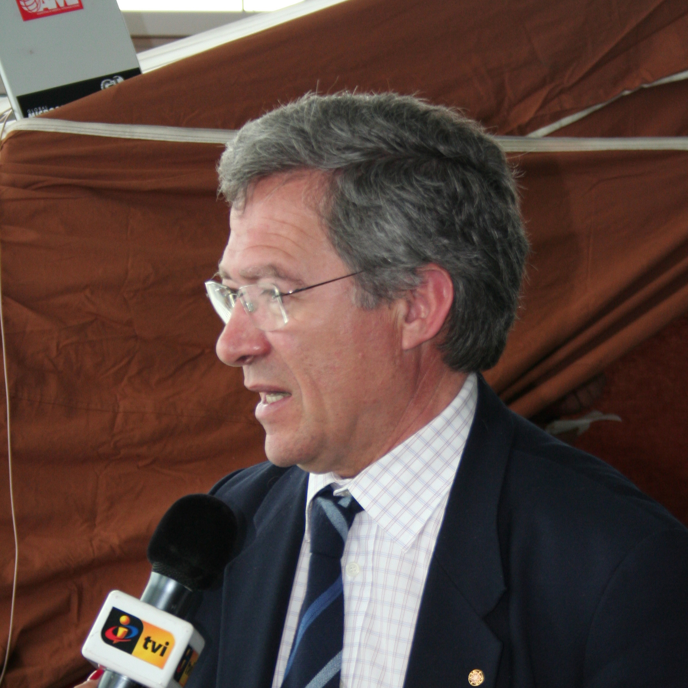 Fernando Nobre, president of the Portuguese NGO "International Medical Assistance".